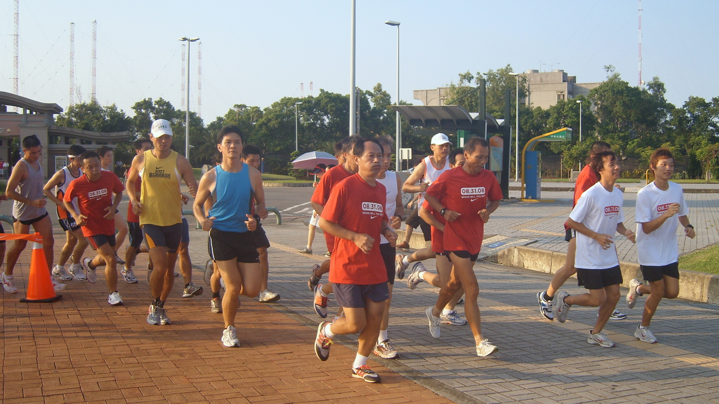 2008 Nike+ Human Race Training Run in Tamshui, Taipei County.